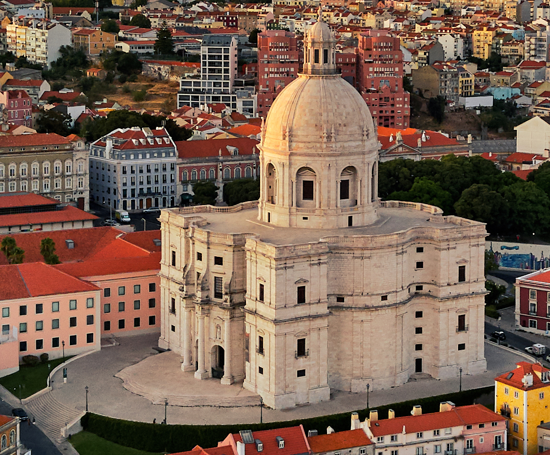 The National Pantheon in Lisbon